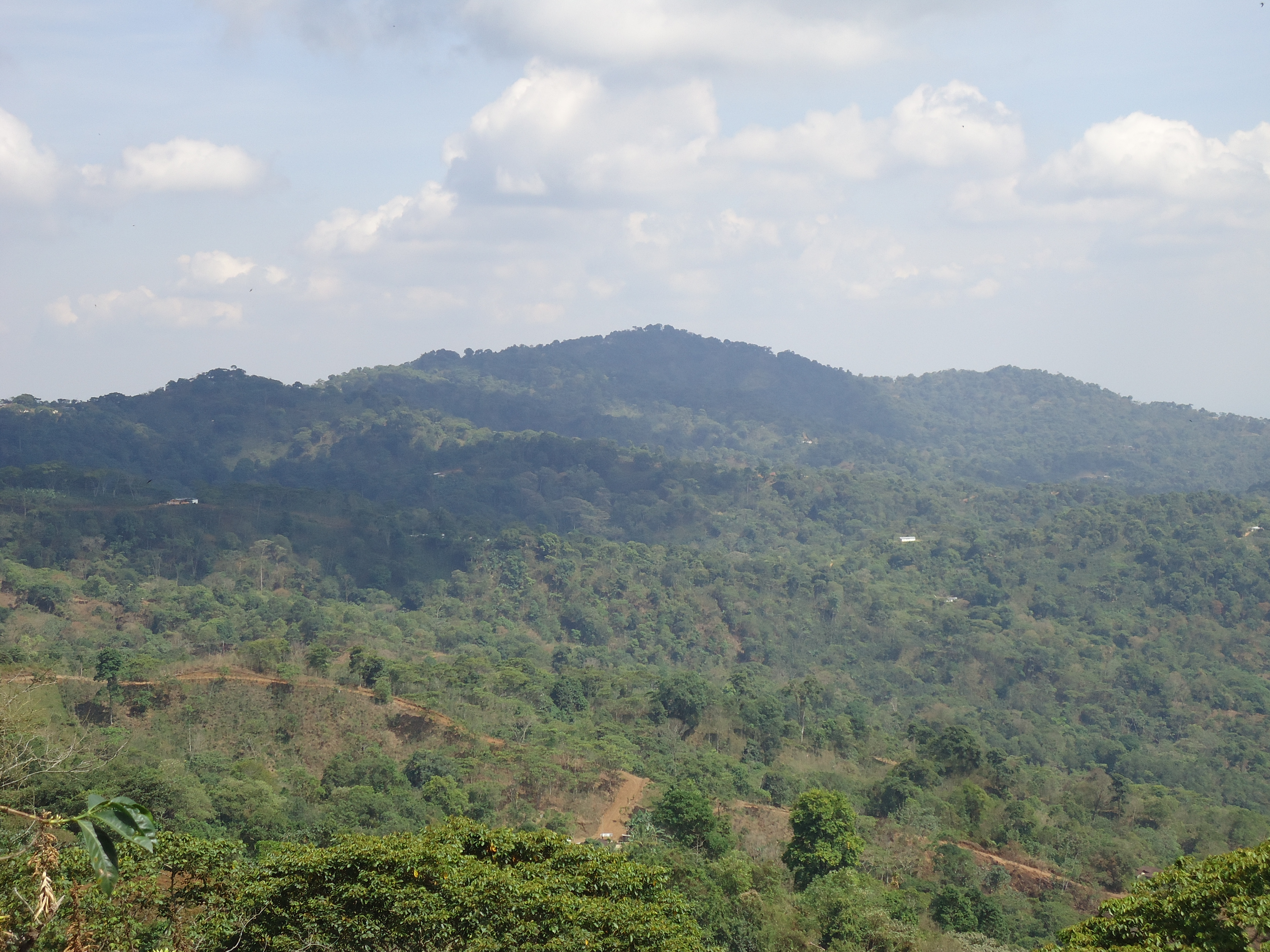 MUNICIPIO SUCRE DEL ESTADO PORTUGUESA, SECTOR VILLA ROSA, ZONA NUBLADA.TEMP 15° A 20°